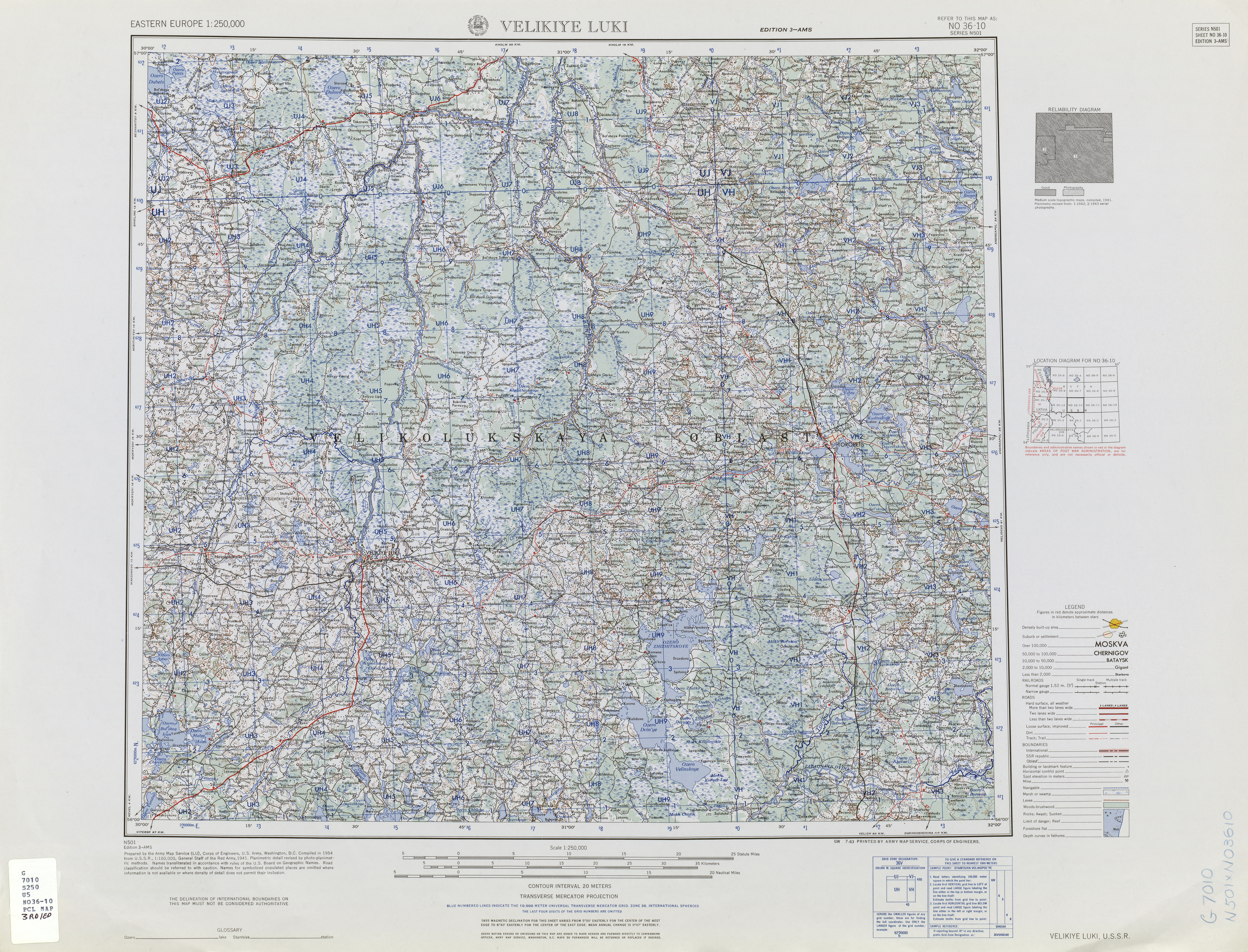 List from Eastern Europe AMS Topographic Maps. Series N501, U.S. Army Map Service, 1954